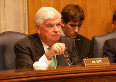 Dodd discusses the Peace Corps Volunteer Empowerment Act